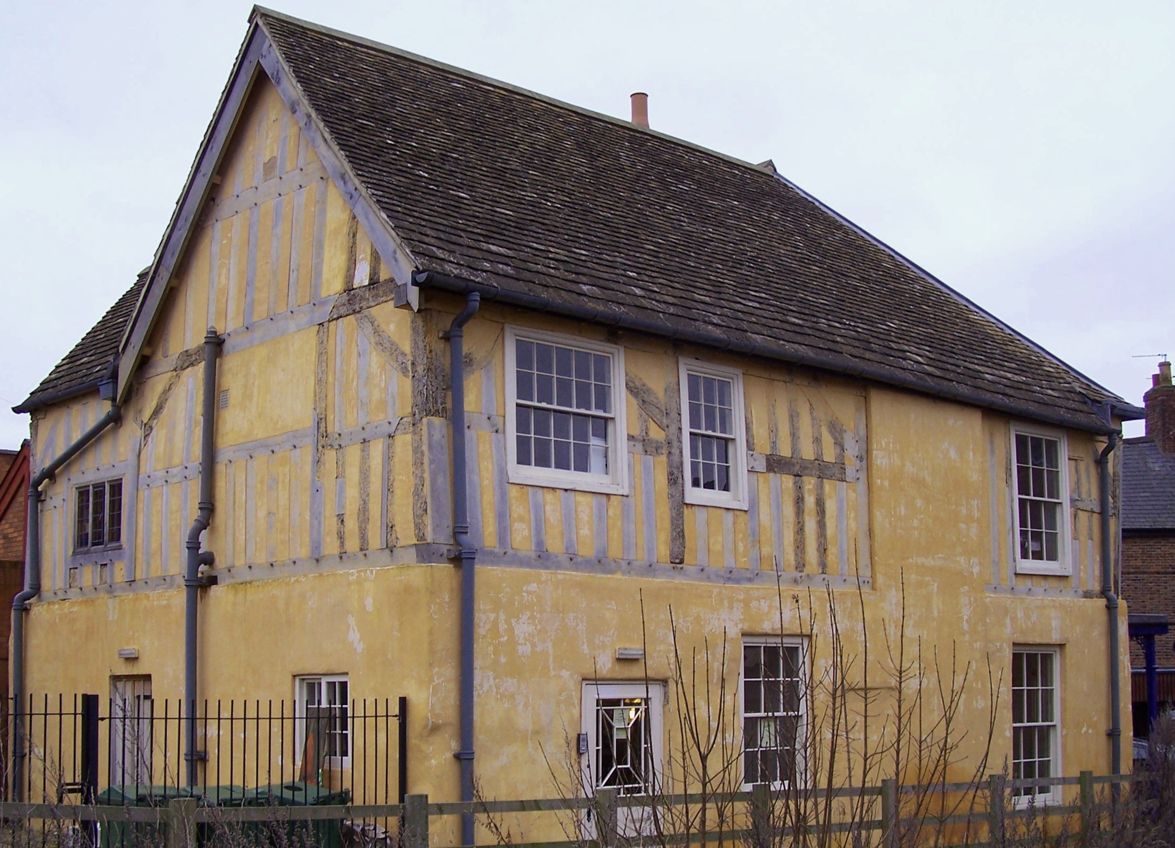 The rear of the Tourist Information once the home of O Manchesters.